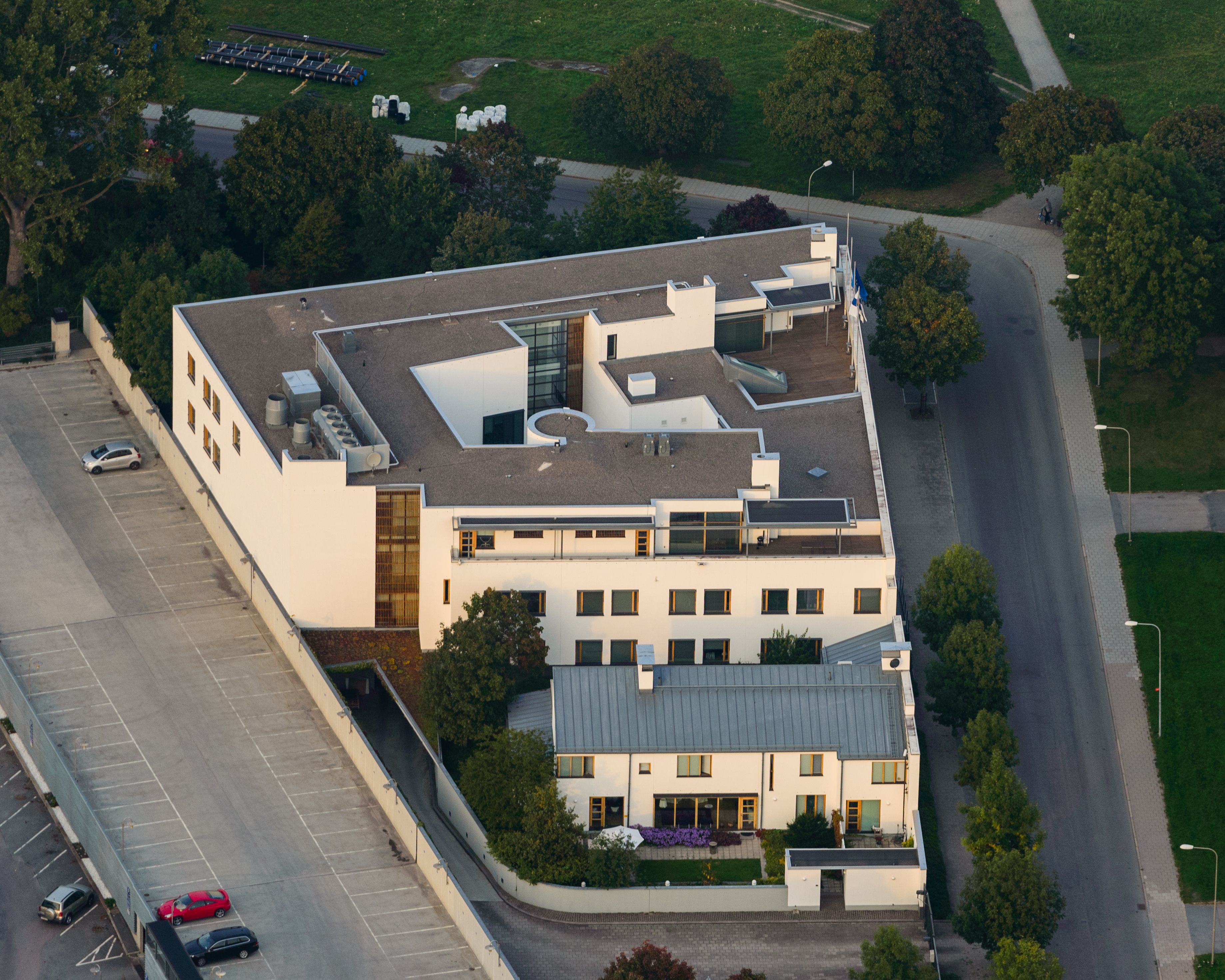 Embassy of Finland in Stockholm.